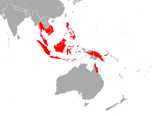 Diadem Roundleaf Bat (Hipposideros diadema) range